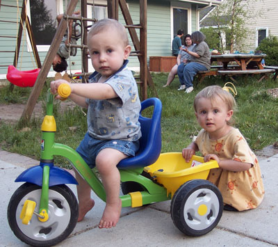 Cohousing Communities generally provide good environments for raising children with many watchful adults around. (Sunward Cohousing 2004) Photo by M. McIntyre. External links Sunward cohousing web site